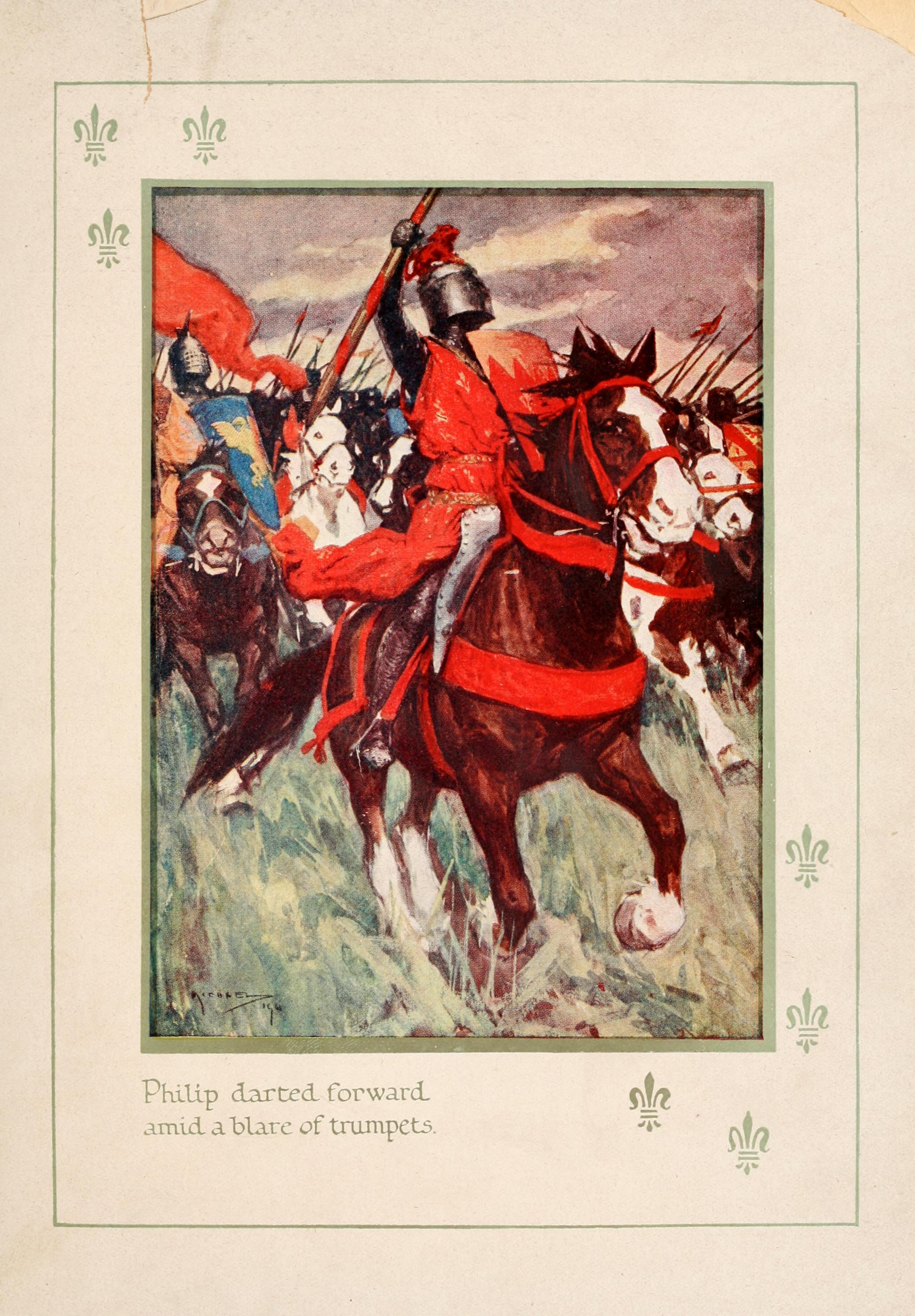 Published [c1912] Topics France -- History Publisher New York : Hodder & Stoughton, George H. Doran company Pages 622 Possible copyright status NOT_IN_COPYRIGHT Language English Call number 564148 Digitizing sponsor MSN Book contributor New York Public Library Collection newyorkpubliclibrary; americana Full catalog record MARCXML [Open Library icon]This book has an editable web page on Open Library.